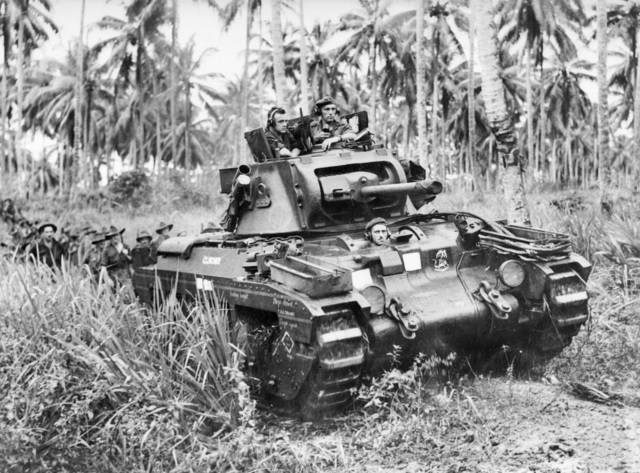 AWM Caption: Finschhafen, New Guinea. 9 November 1943. A Matilda tank of 4th Australian Armoured Brigade ploughing ahead towards the battle area in an effort to drive the Japanese out of strongposts held near the Finschhafen area. The tank, named Clincher, has a logo on the front of a crocodile under a palm tree over a boomerang. Other unit identification markings have been whited out by the censor.